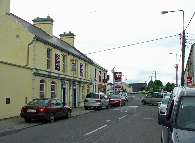 Borrisokane, Co. Tipperary, near to Borrisokane and Goatstown, Tipperary, Ireland.